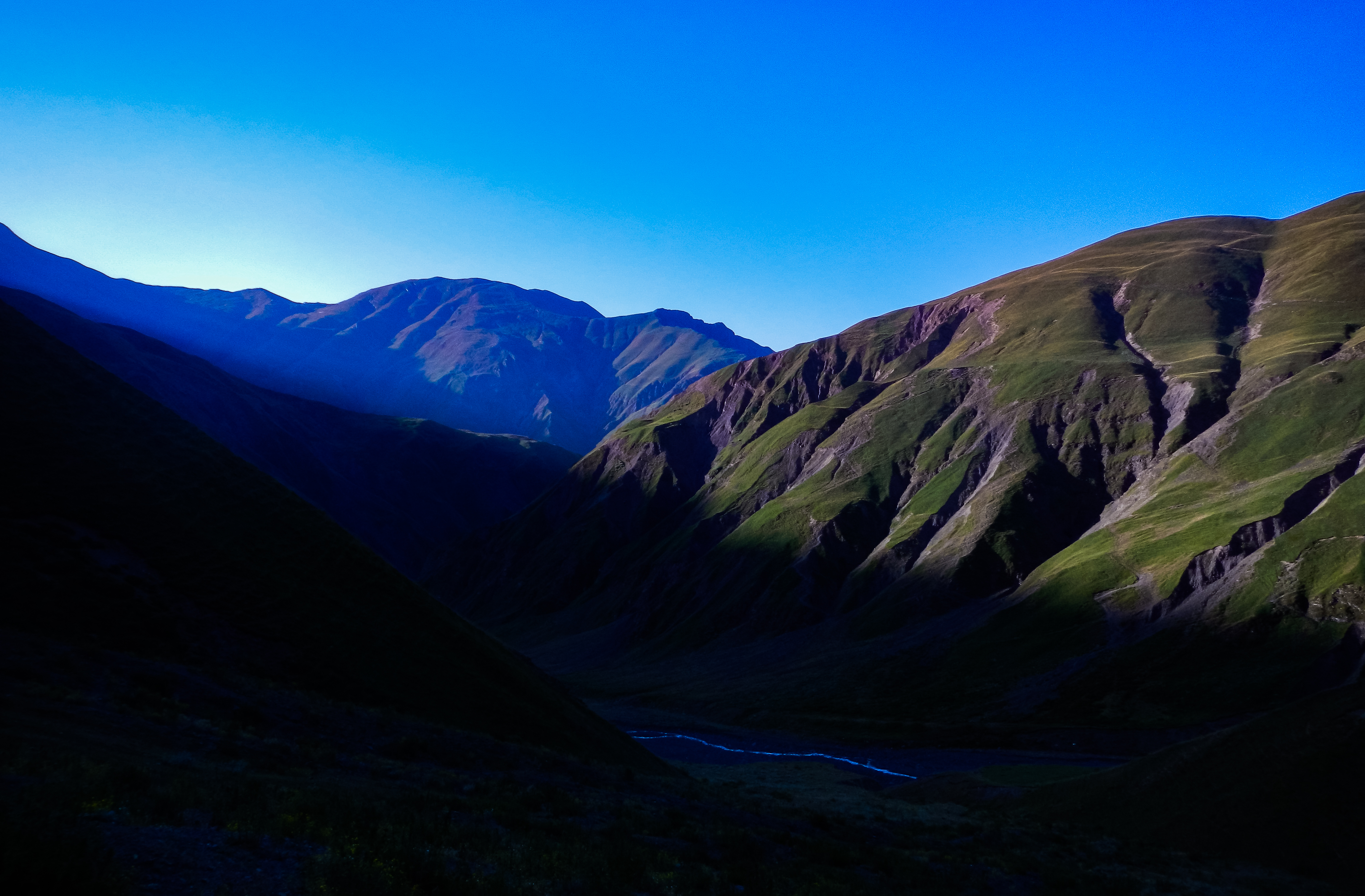 Gabala State Nature Sanctuary Tufandag mountain view in sunrise